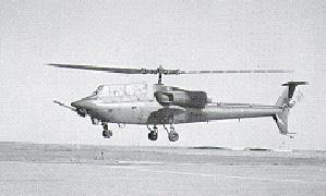 Bell YAH-63 US Government site, no restrictions cited